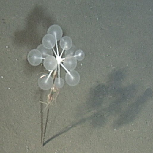 Habitus of carnivorous sponge Chondrocladia lampadiglobus (Demospongiae: Cladorhizidae). In situ photograph of the holotype specimen at 2714 m depth on the East Paciﬁc Rise